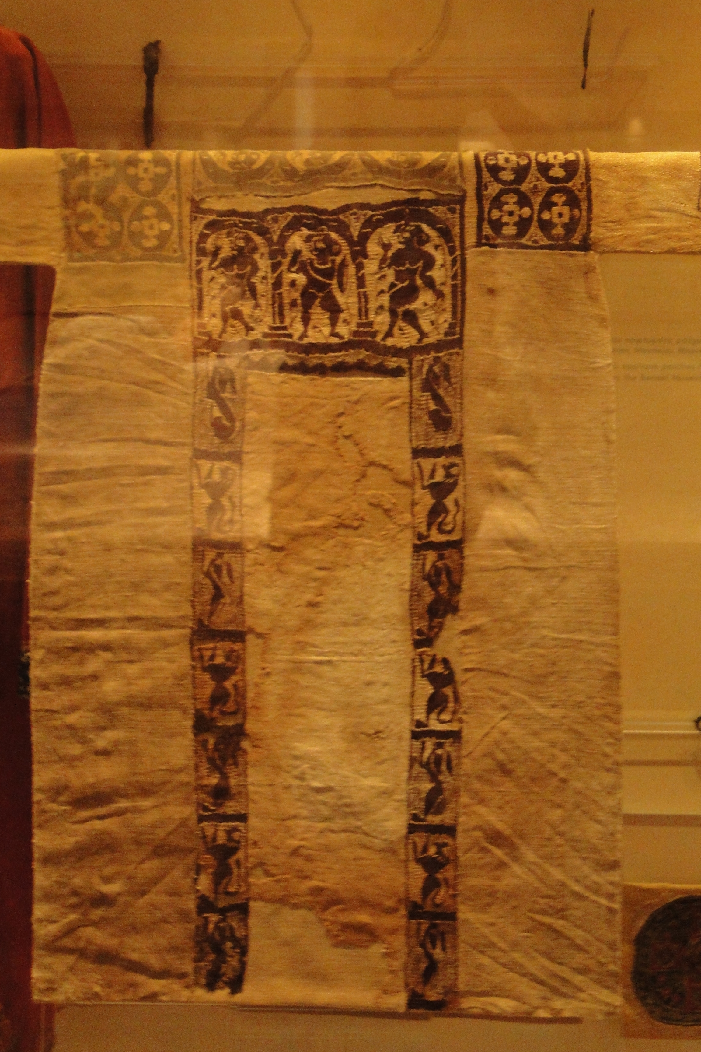 Tunic from Egypt, 7th century, Byzantine Museum of Thessaloniki.